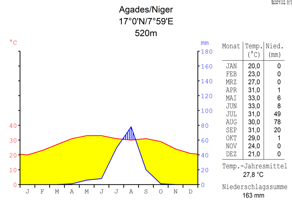 climate chart in the format by Walther and Lieth, metric, °Celsisus and millimeters, made with Geoklima 2.1 DateOctober 2006SourceSoftware: Geoklima 2.1 Website GeoklimaAuthorHedwig in WashingtonPermission (Reusing this file) Own work, attribution required (Multi-license with GFDL and Creative Commons CC-BY 2.5)